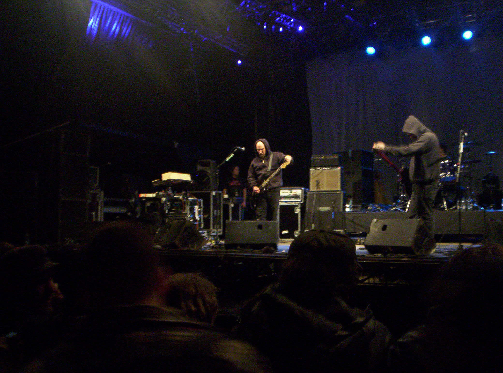 Live in Hellfest